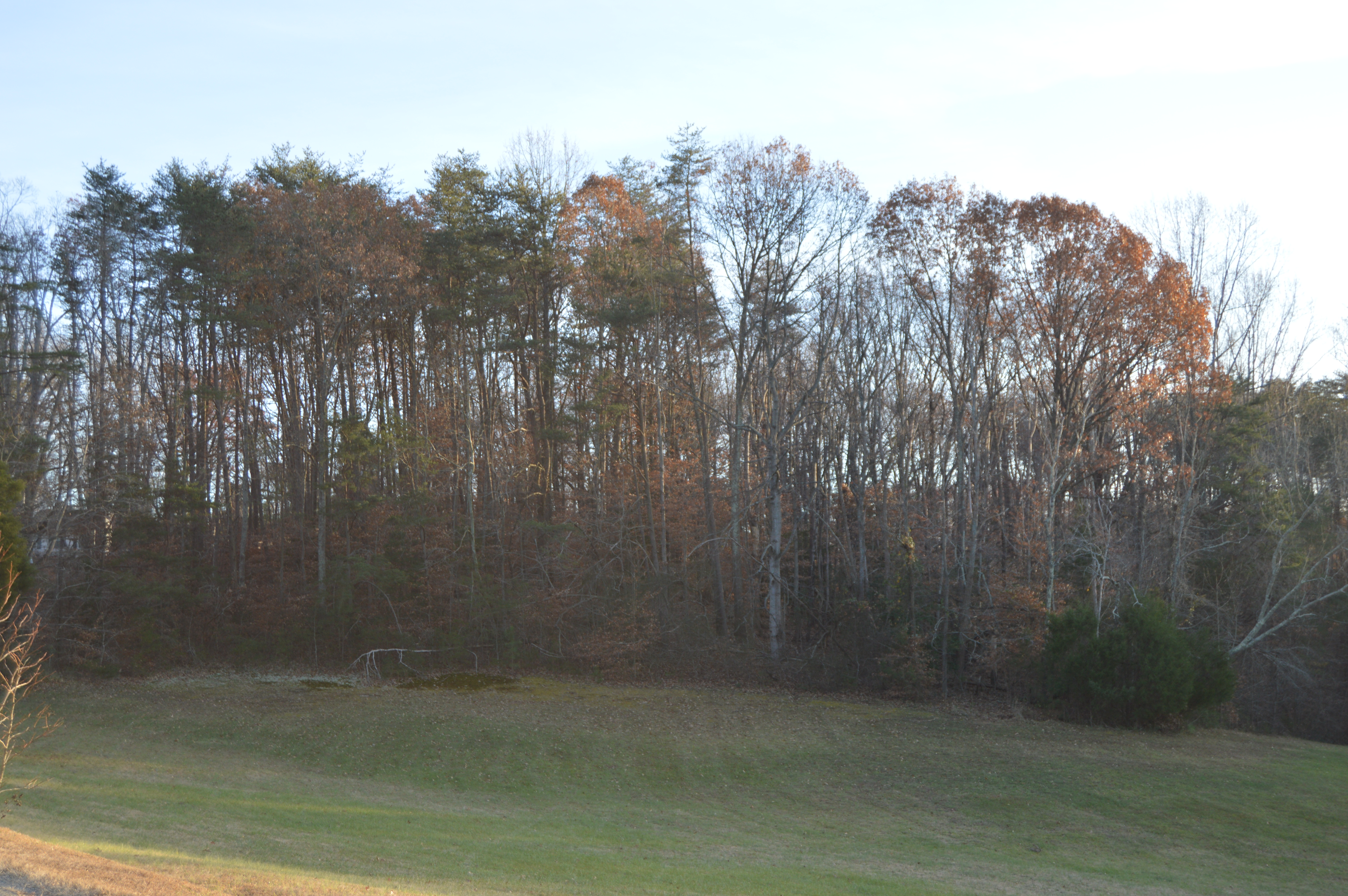 Looking south from Courthouse Road toward the remains of Redoubt No. 2, a Union Army fortification overlooking Aquia Creek and the Potomac River just southeast of Stafford Courthouse in Stafford County, Virginia, United States. Built in 1863, the fort is listed on the National Register of Historic Places.